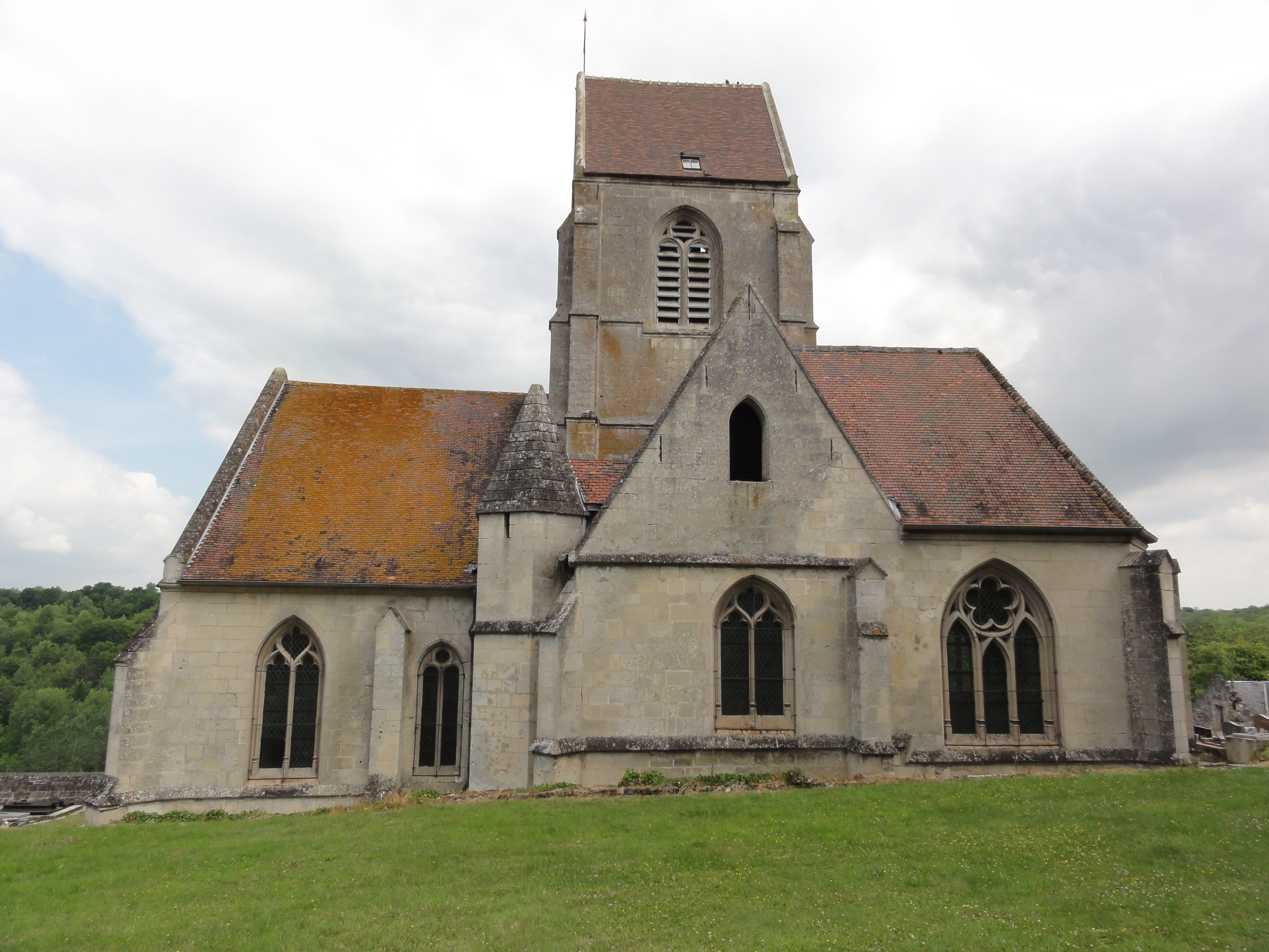 Cutry (Aisne) église